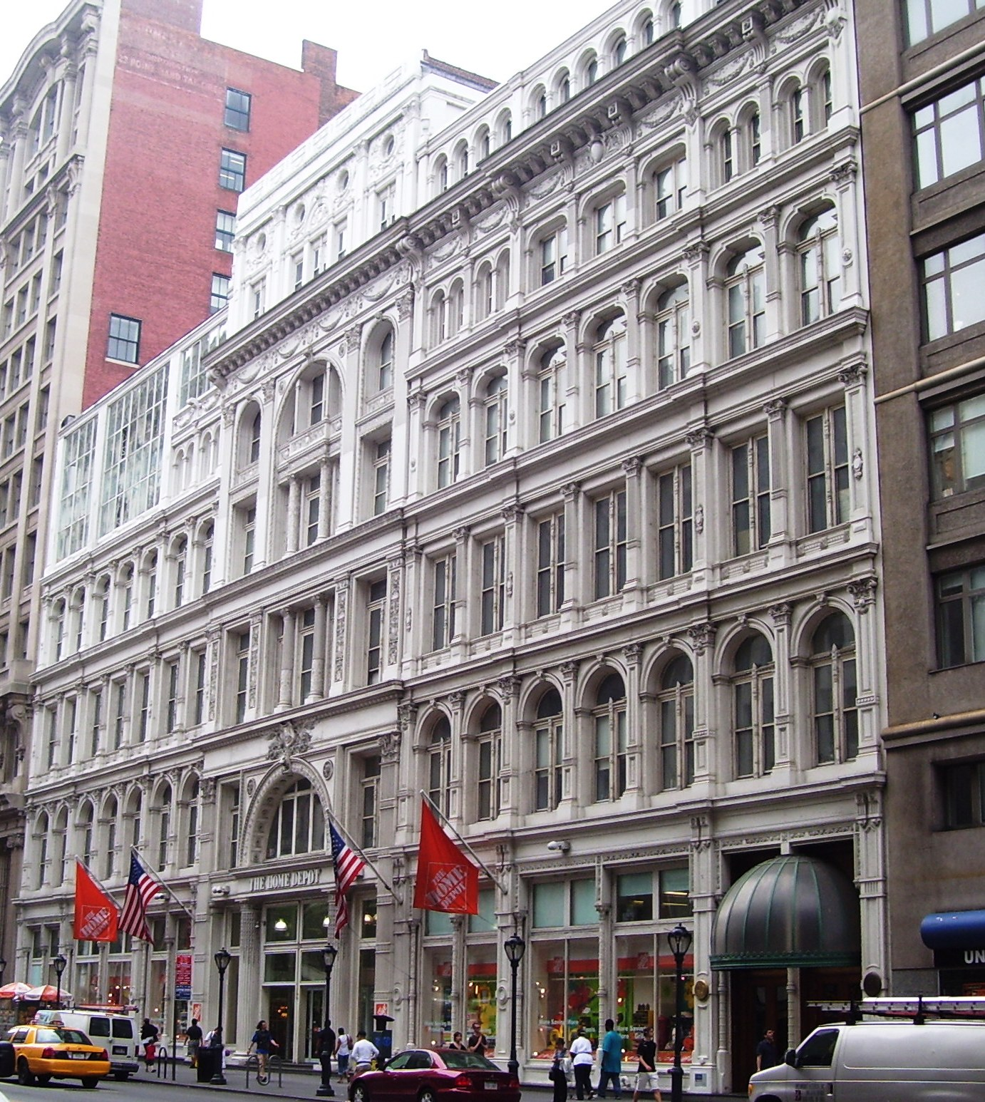 32-46 West 23rd Street between Fifth Avenue and the Avenue of the Americas (Sixth Avenue) in the Flatiron District, Manhattan, New York City, was built as the Stern Brothers' Dry Goods Store, which moved to this location from Sixth Avenue. The building was was constructed in five stages: 1878: 32-36 West 23rd Street (on the left), designed by Henry Fernbach 1878: 23 West 22nd Street (rear, not seen here), designed by Henry Fernbach, built as an extension 1880: 25-27 West 22nd Street (rear, not seen here), designed by Henry Fernbach, an additional extension 1886: 29-35 West 22nd Street (rear, not seen here), designed by Hugo Kafka, following Fernbach's design 1892: 40-46 West 23rd Street (on the right), plus alterations and additions to the original building, designed by William Schickel and was altered in 1986 by Rothzeid, Kaiserman, Thompson & Bee. Its current retail occupant is Home Depot. The Stern Brothers also commission a 12-story store and loft building next door, at 28-30 East 22nd Street, built in 1910-11 as an annex, a bit of which can be seen on the far left. (Sources: AIA Guide to NYC (4th ed.), NYCLPC Ladies' Mile Histroic District Designation Report vol. 2)